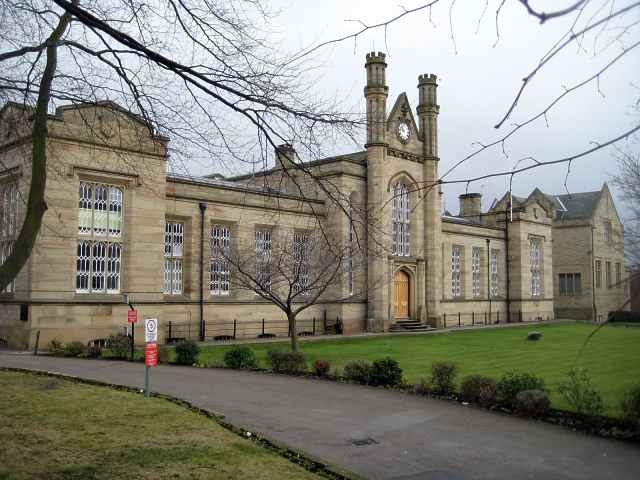 Queen Elizabeth Grammar School (QEGS). The boys only day school on Northgate, a grade II listed building, was built of ashlar stone in a mock Tudor style by Richard Lane of Manchester in 1833-4, as the West Riding Proprietary School. The building was then purchased at auction in 1854 by the governors of the original Grammar School, which still stands in Brook Street. 1095544.